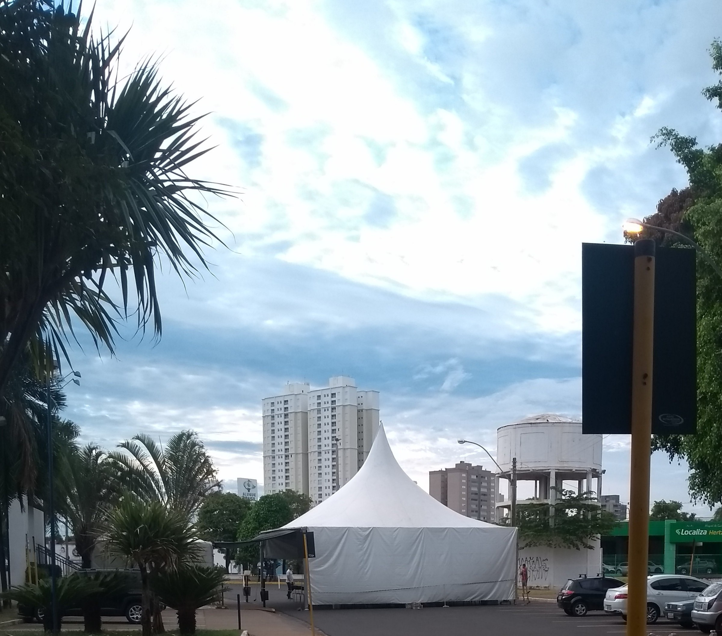 Área para triagem de pacientes com problemas respiratórios durante a Pandemia de Covid19 em Araçatuba.